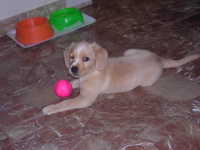 Puppy lying down on the floor with a pink ball. Our little dog, Otto (born May 18, 2006)